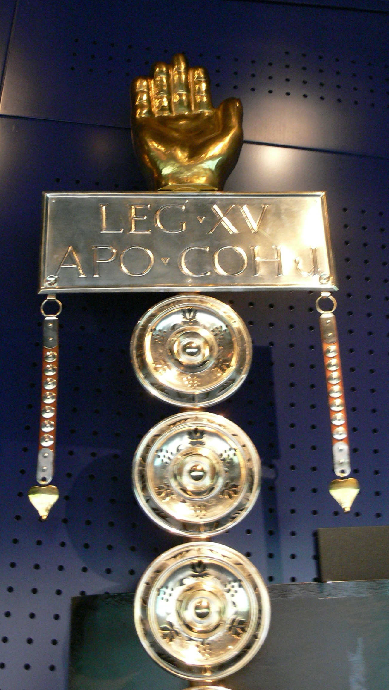 Petronell ( Lower Austria ). Roman Museum: Signum of the Legio XV Apollinaris ( replica ).